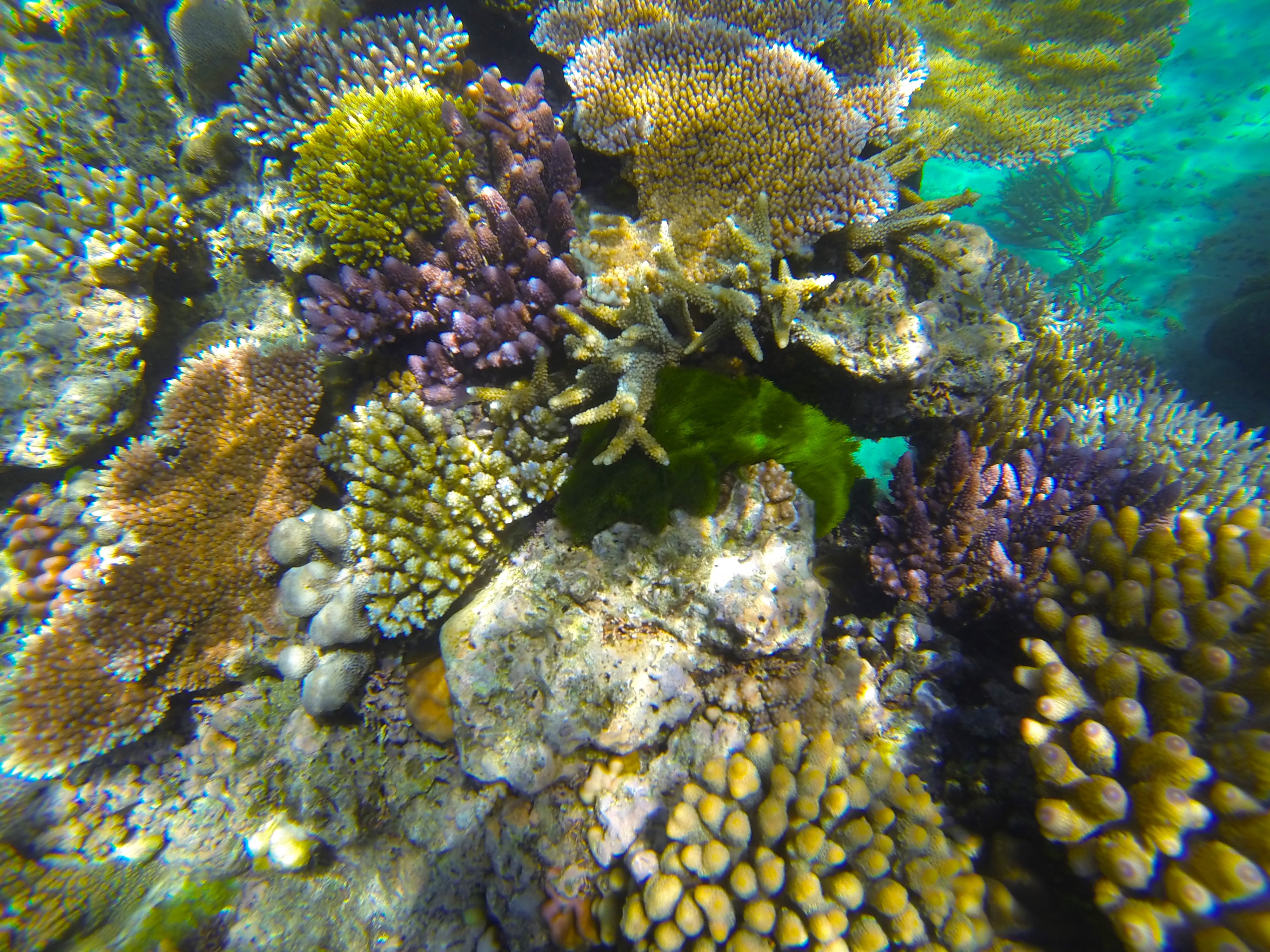 Snorkeling in the Great Barrier Reef, Australia.